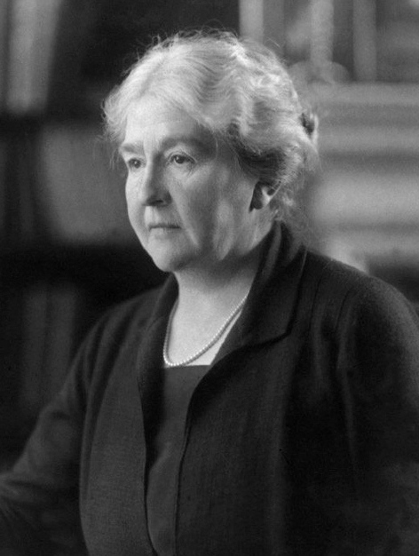 Hilda Runciman, Viscountess Runciman of Doxford